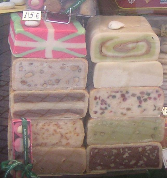 Beautiful coloured marzipans in North Euskadi (including one in the form of the Basque flag).